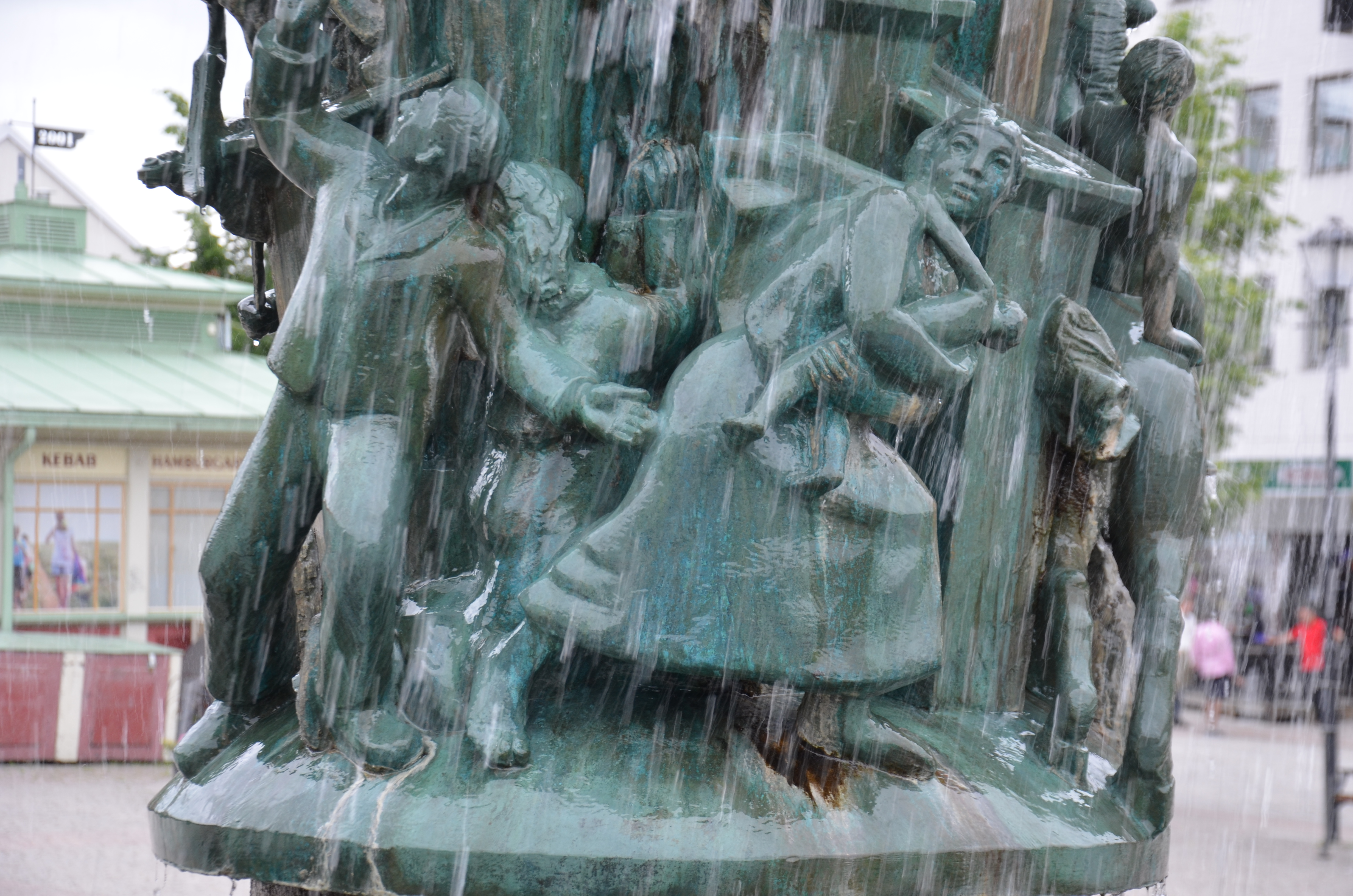 Nils Sjögrens De fyra elementens brunn på Stora torget i Enköping, Detalj i norr.